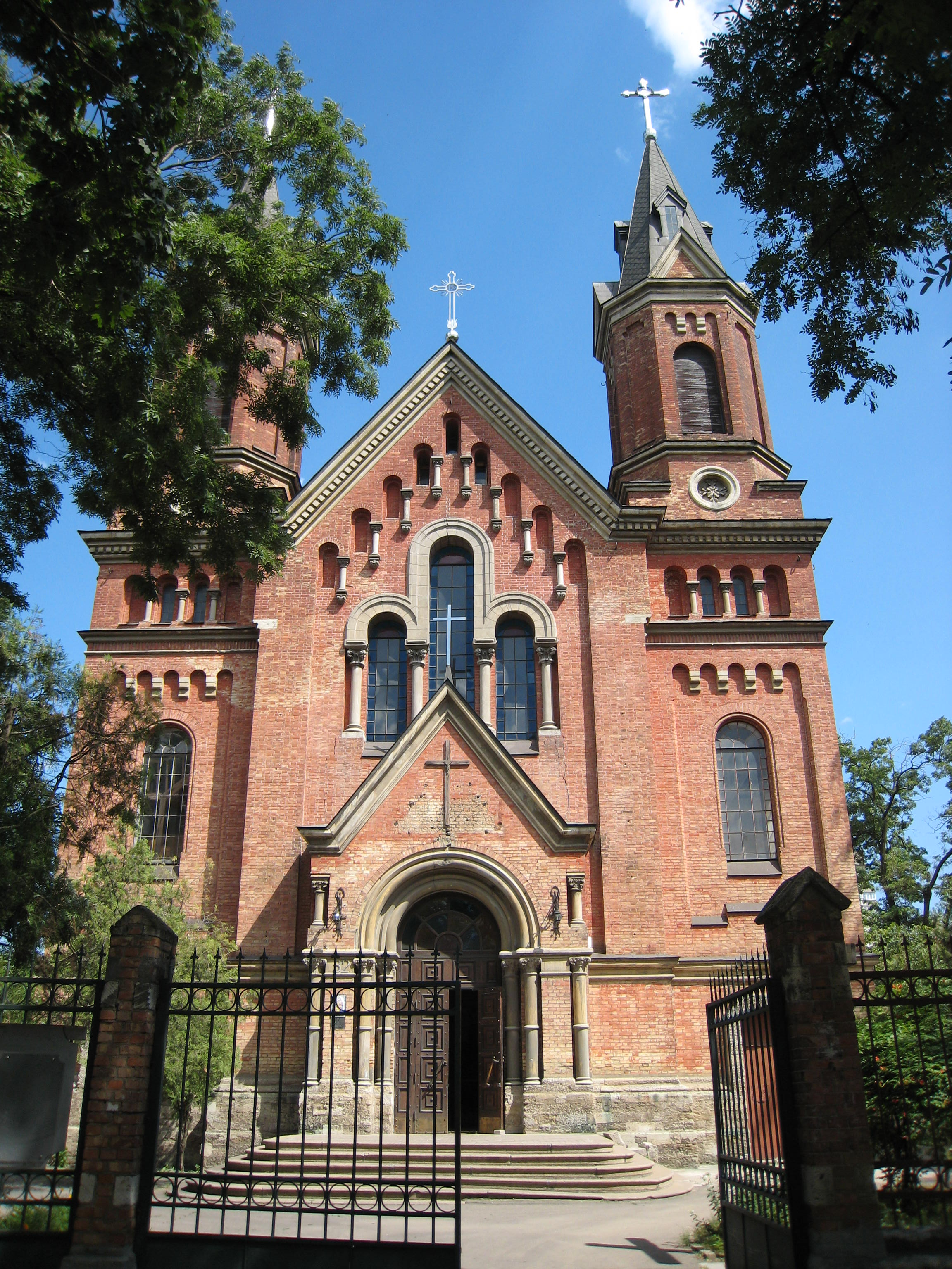 Roman Catholic church of Saint Joseph, Mykolaiv, Ukraine.